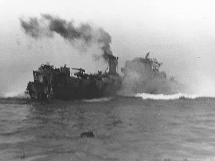 The U.S. Navy destroyer escort USS Rich (DE-695) strikes a mine, amidships, while operating off Normandy, France, on 8 June 1944. She had previously hit another mine, which blew off her stern.